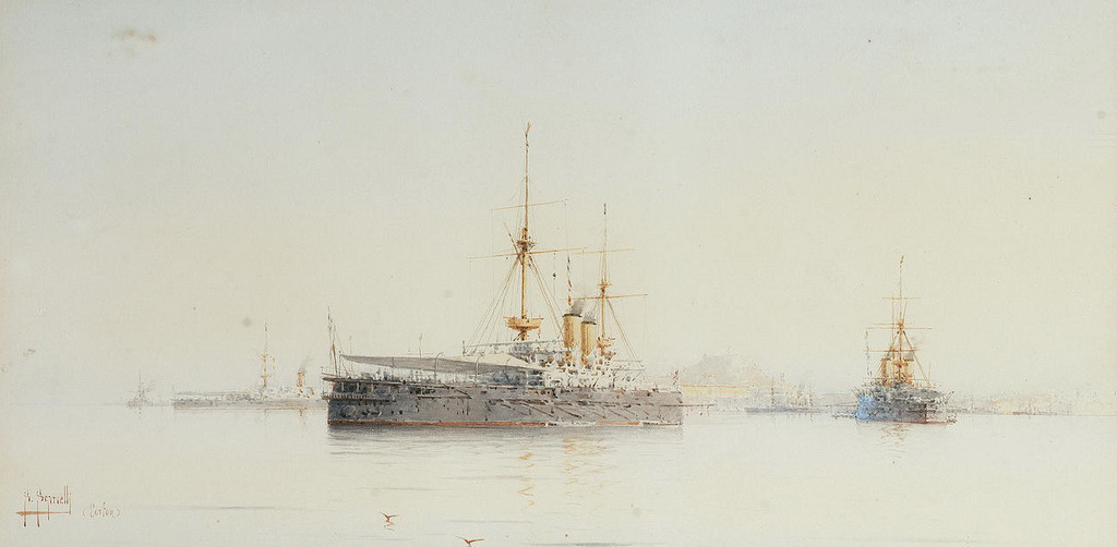 Ships at anchor off Corfou